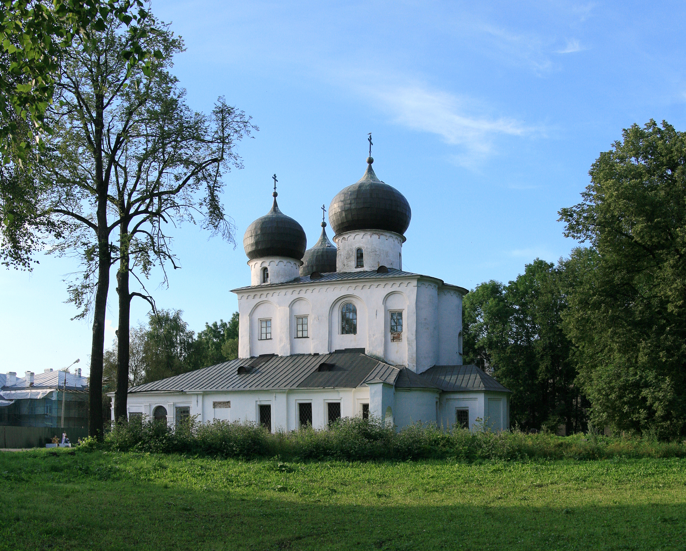 Cathedral of the Nativity of the Theotokos, Antoniev Monastery, Veliky Novgorod